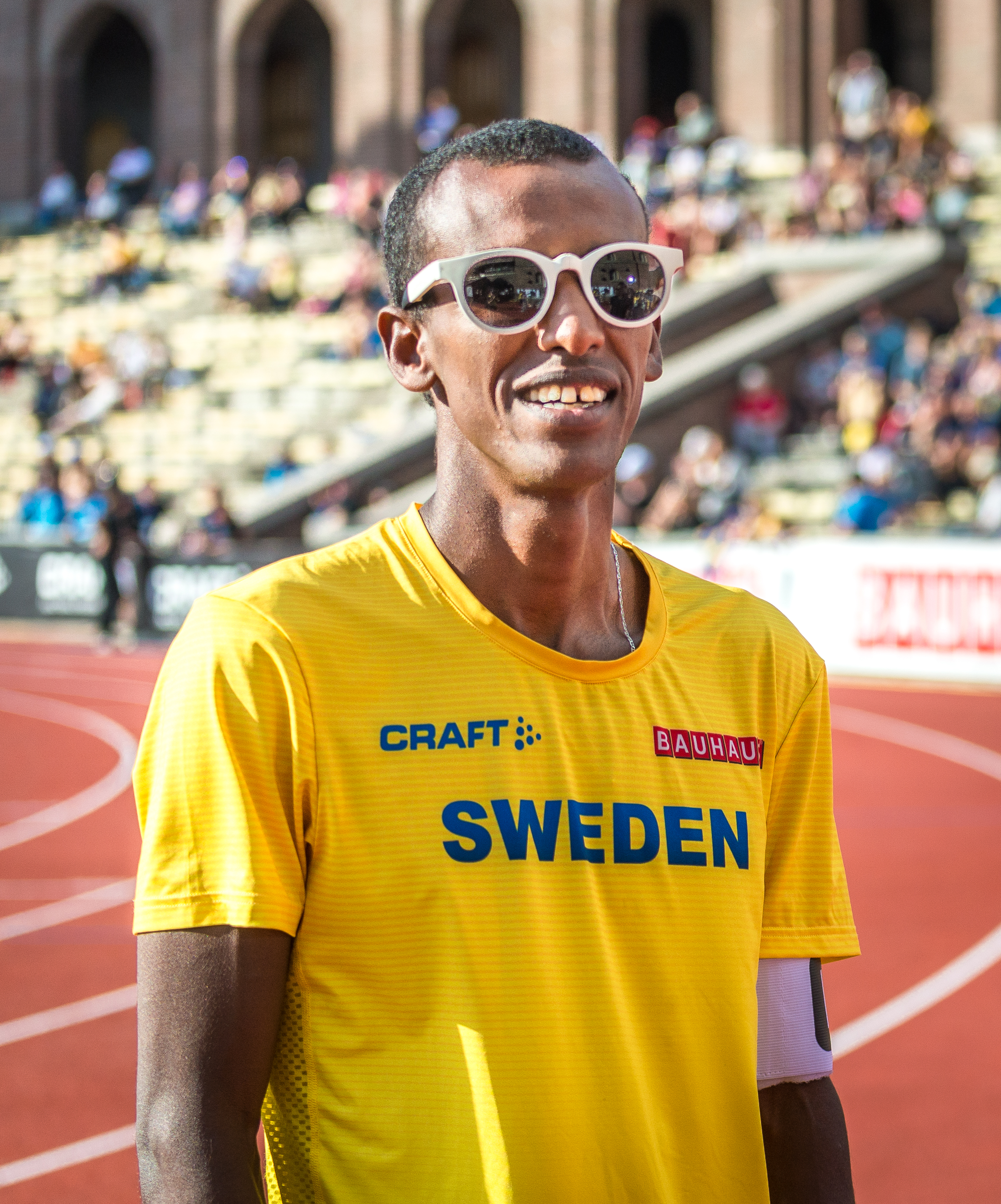 Mustafa Mohamed during the Finland-Sweden athletics international 2019 at the Stockholm Stadium in August 2019.